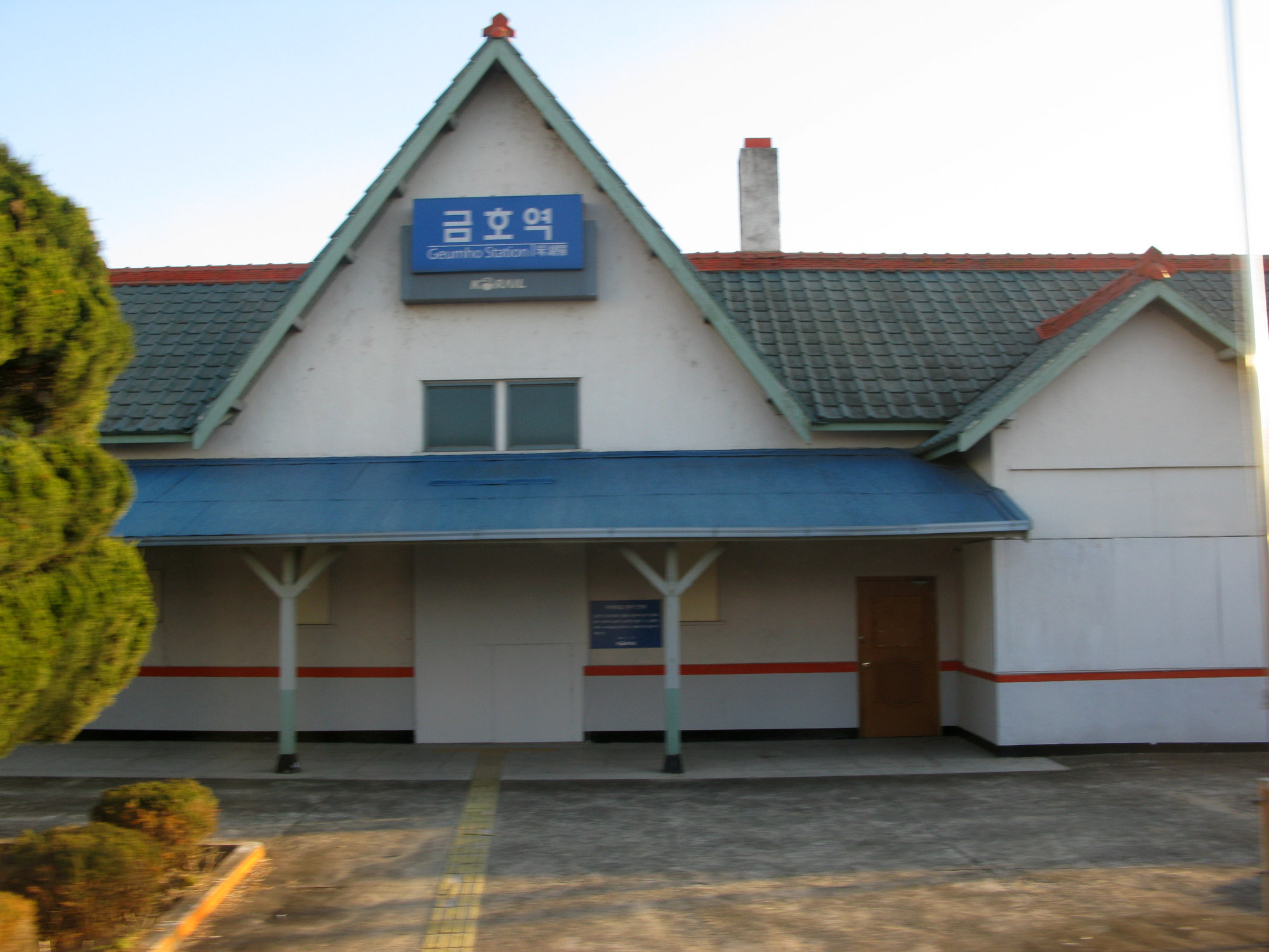 Daegu Line Geumho Station